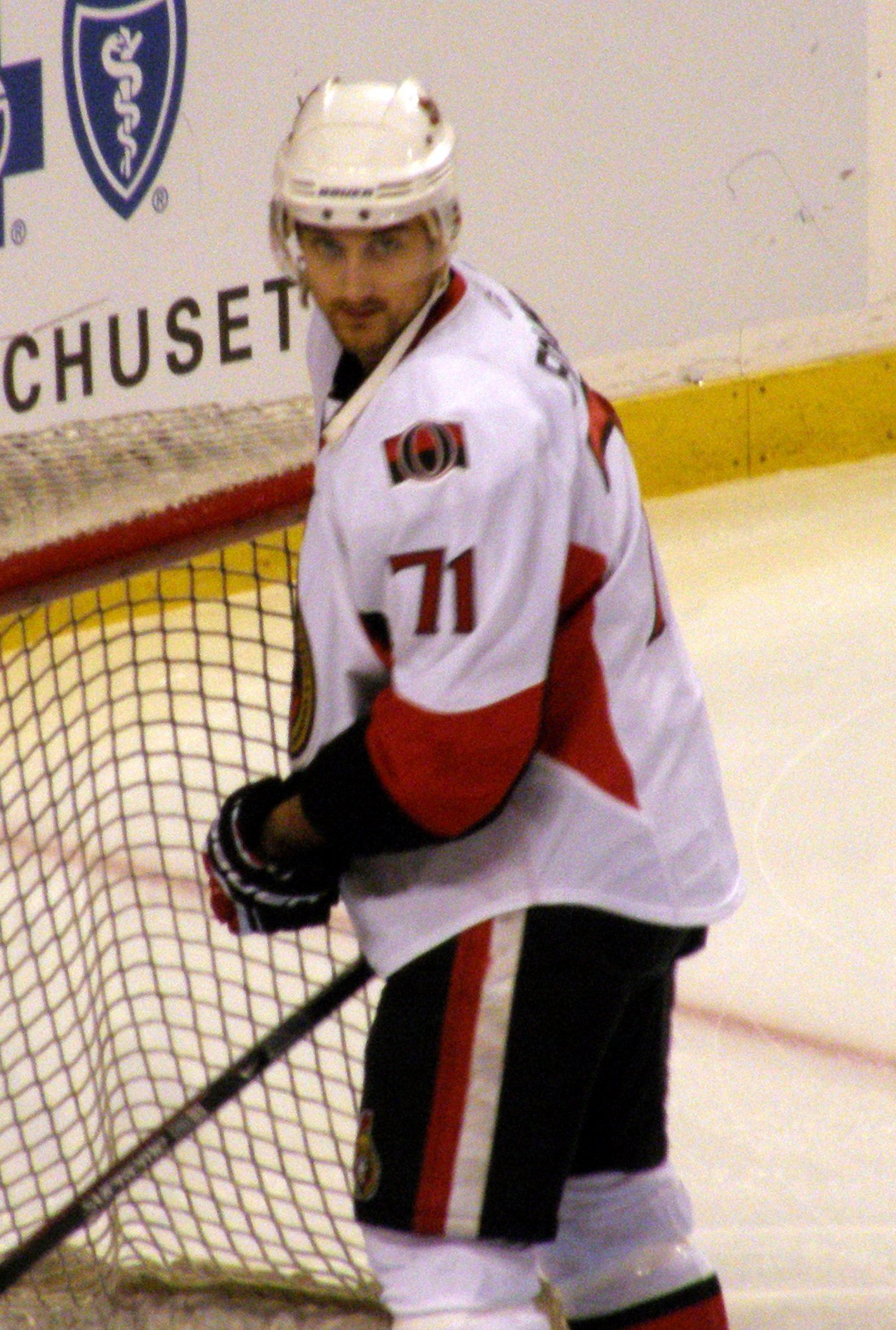 Nick Foligno (LW, OTT)